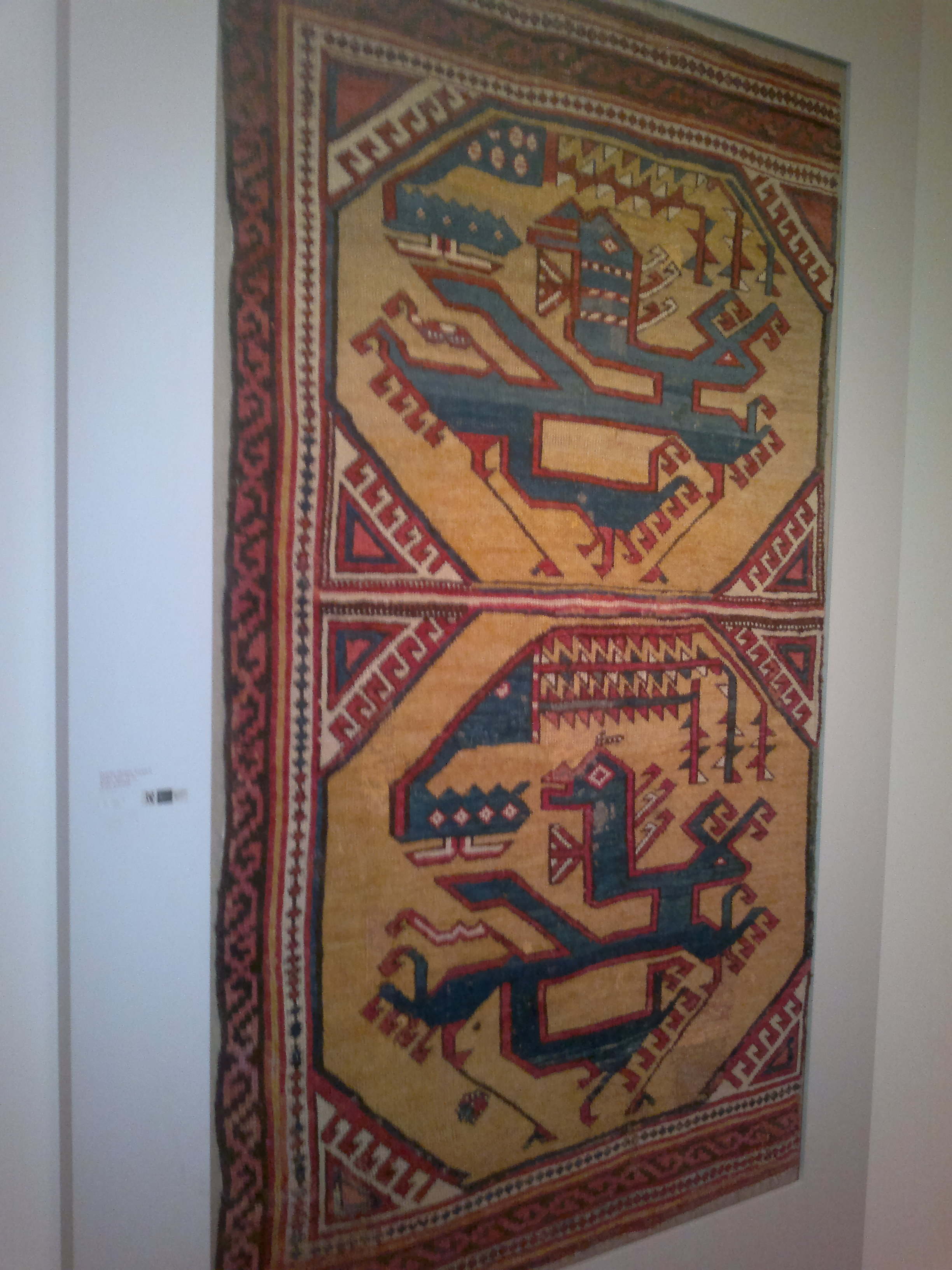 Dragon and phoenix carpet. Turkey, mid-15th century. Wool, khotted, 172x90 cm. Pergamon Museum, Berlin. According to Latif Kerimov (see L. Kerimov. Azerbaijani carpet. Vol. III. Baku, 1983) this carpet was made in Qazakh region (Azerbaijan)